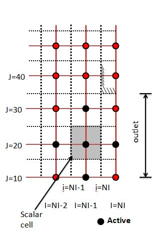 scalar cell at an exit boundary